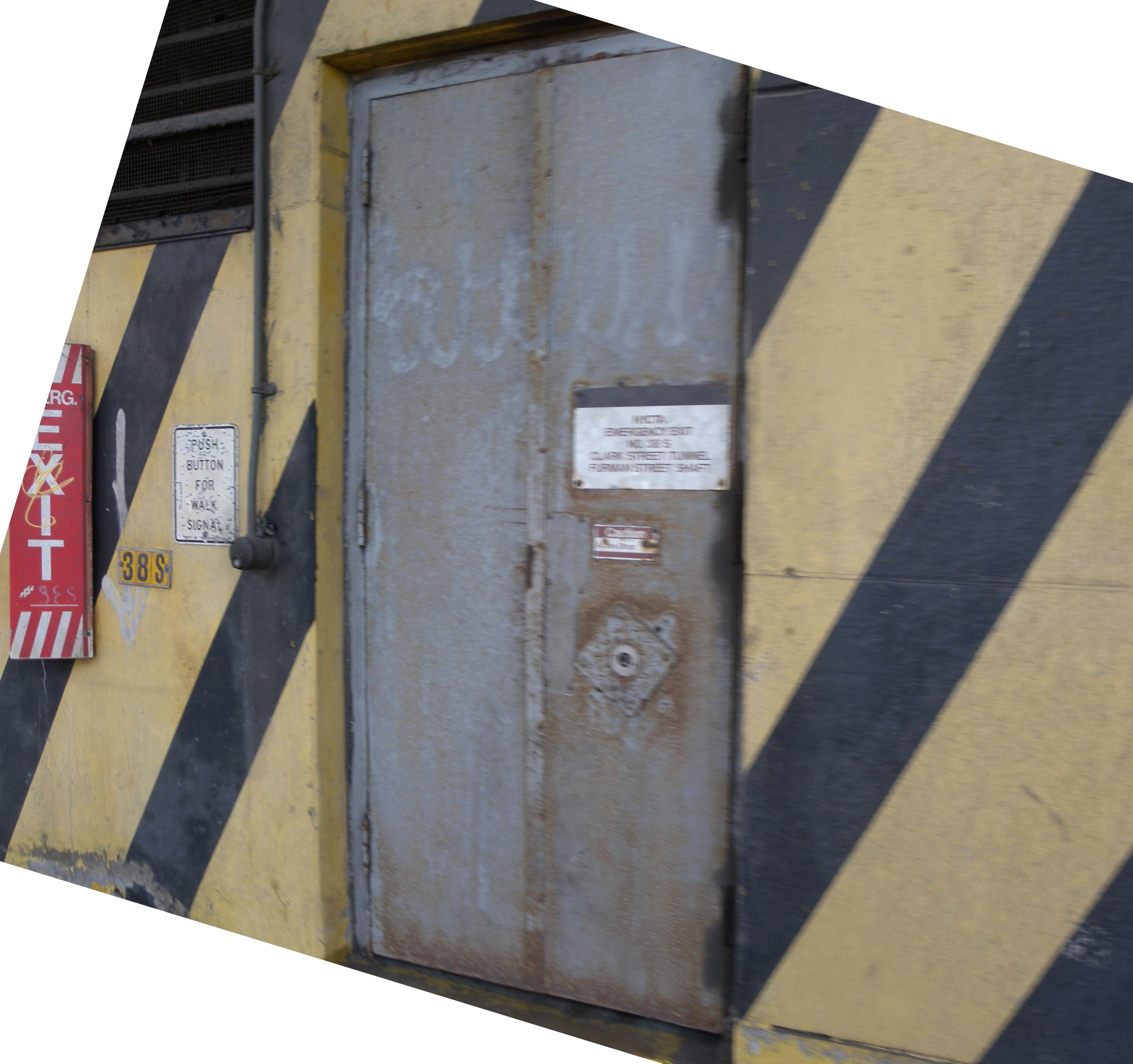 Looking east from Furman Street at emergency exit of Clark Street Tunnel on a mostly sunny midday during 5 Boro Bike Tour. ZIP 11201.